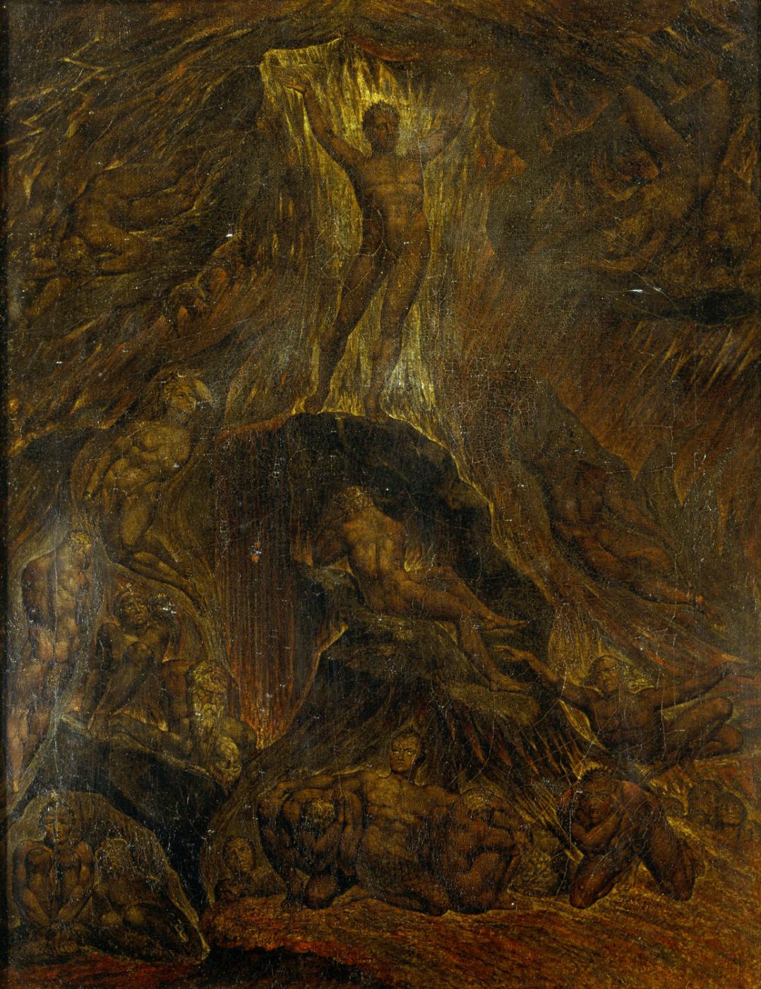 Satan Calling Up his Legions by William Blake